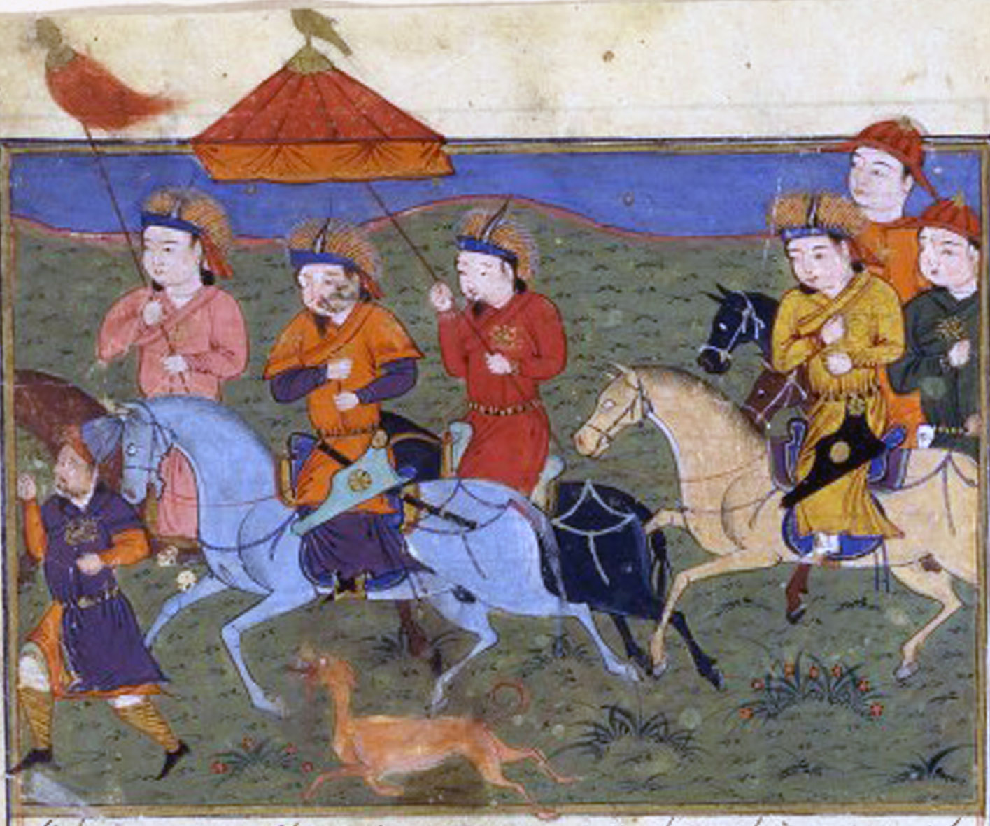 Hulagu and his army. Jami' al-tawarikh, Rashid al-Din.